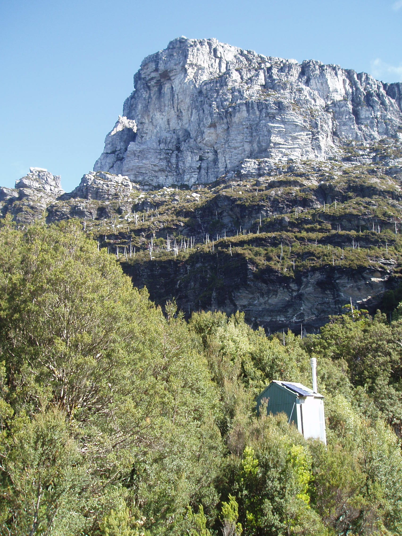 The peak of Frenchmans Cap in Western Tasmania, Australia from near Lake Tahune Hut. taken with Olympus mju camera.